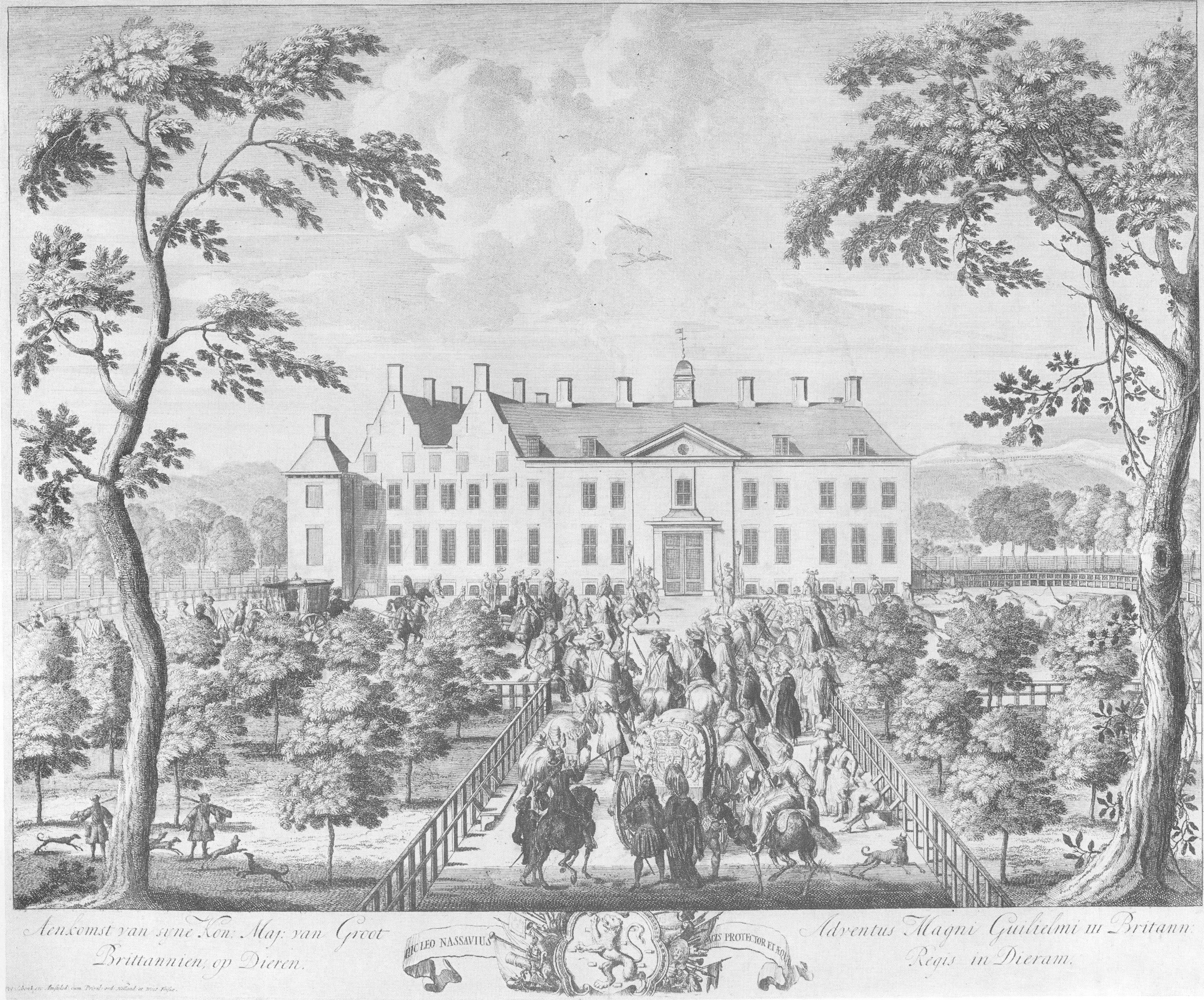 Arrival of King William III of England (who was also William III of Orange, Dutch Stadtholder) at his estate at Dieren.